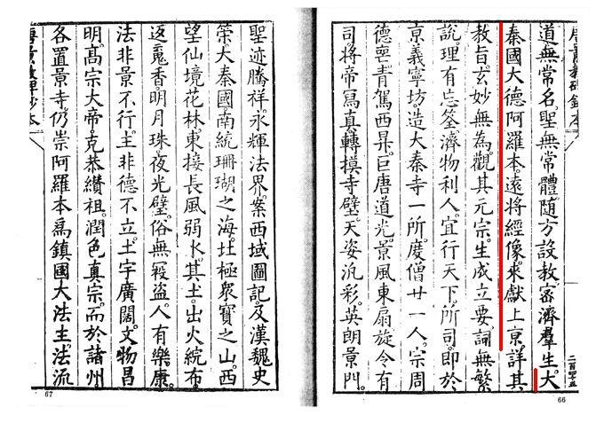 Nestorian stele text copied by Li Chih-tsao.